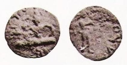 Coin of Kujula Kadphises. Public Domain.